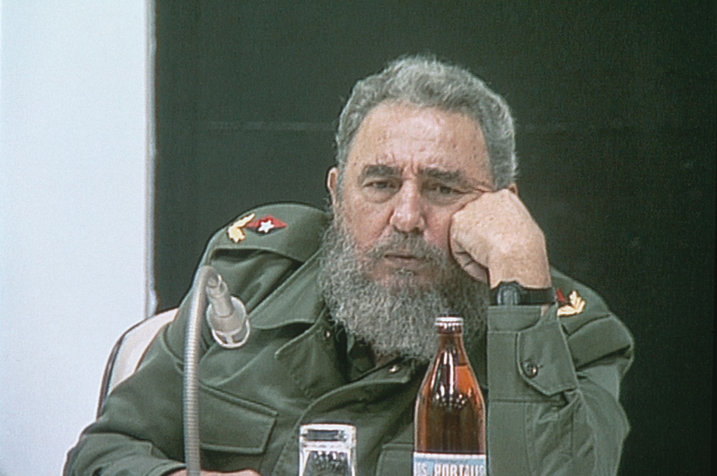 Still from Swiss Documentary "Ricardo, Miriam y Fidel" by Christian Frei. The daughter of a Cuban revolutionary emigrates to Miami. The fate of father and daughter, torn between revolution and counterrevolution, between a utopia and a real crisis, is mirrored by the contrary tales of two radio stations. The film takes a penetrating but impartial look at contemporary Cuban reality.